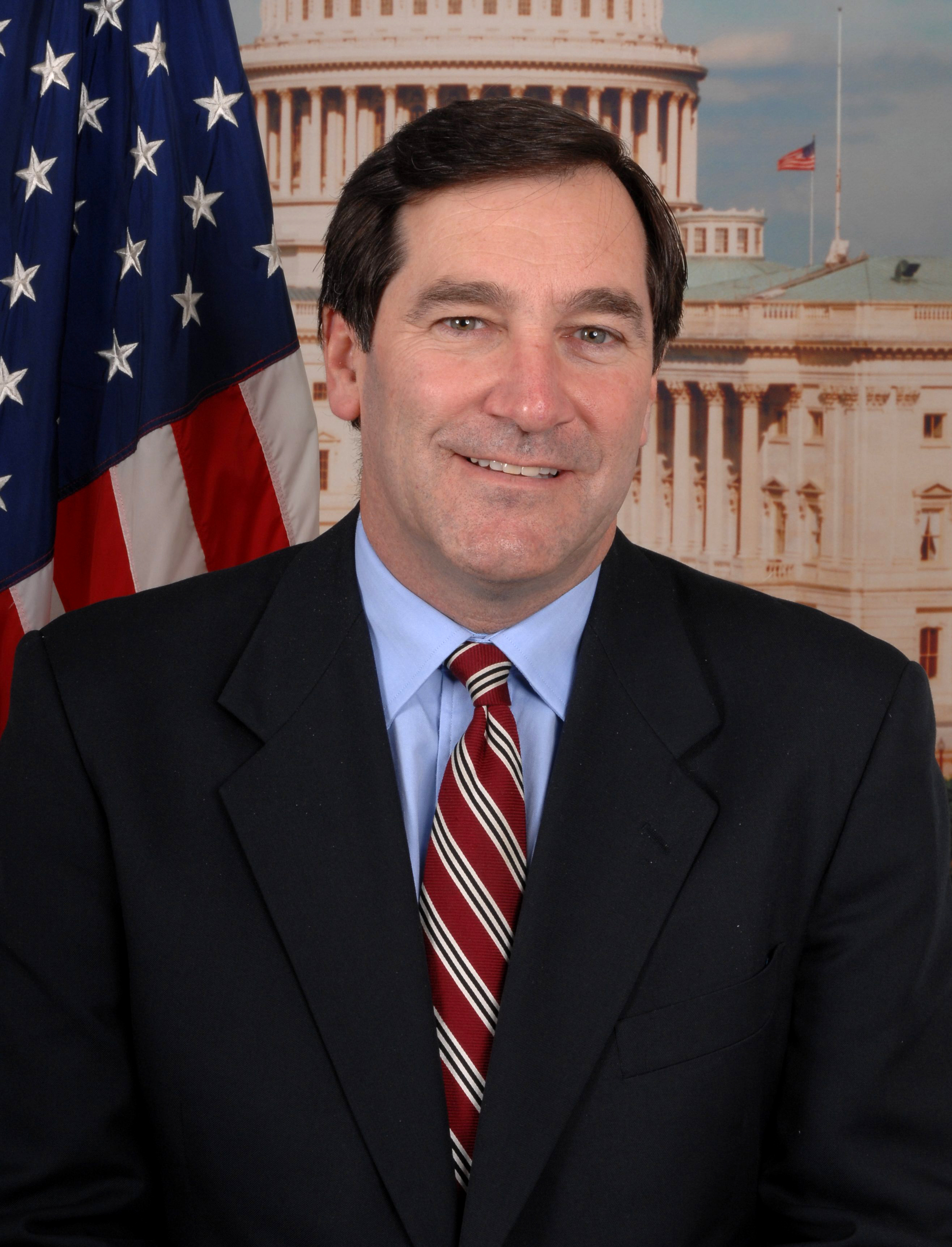 Joe Donnelly, member of the United States House of Representatives.